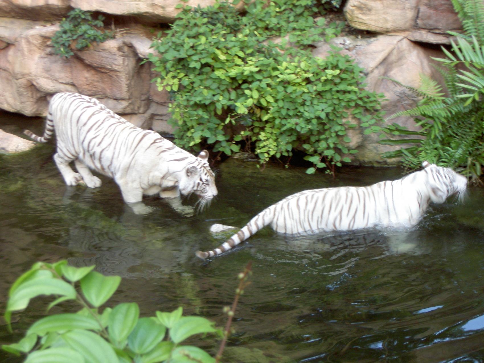 Two white tigers in the zoo of Singapore